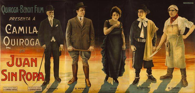 Poster for the Argentine movie Juan Sin Ropa, starred by Camila Quiroga.